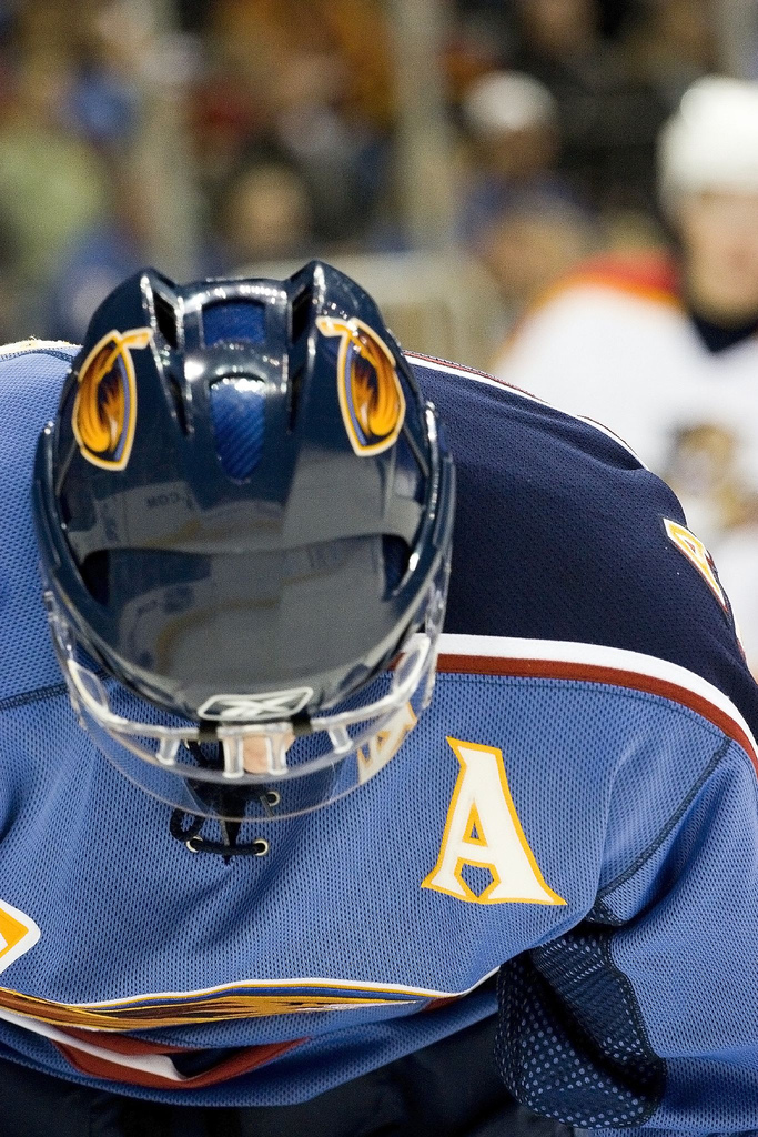 Atlanta Thrashers player (Holik, Kozlov or Mellanby) with head down